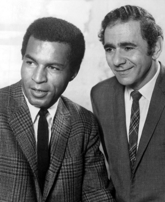 Publicity photo of Lloyd Haynes and Michael Constantine from the television program Room 222.